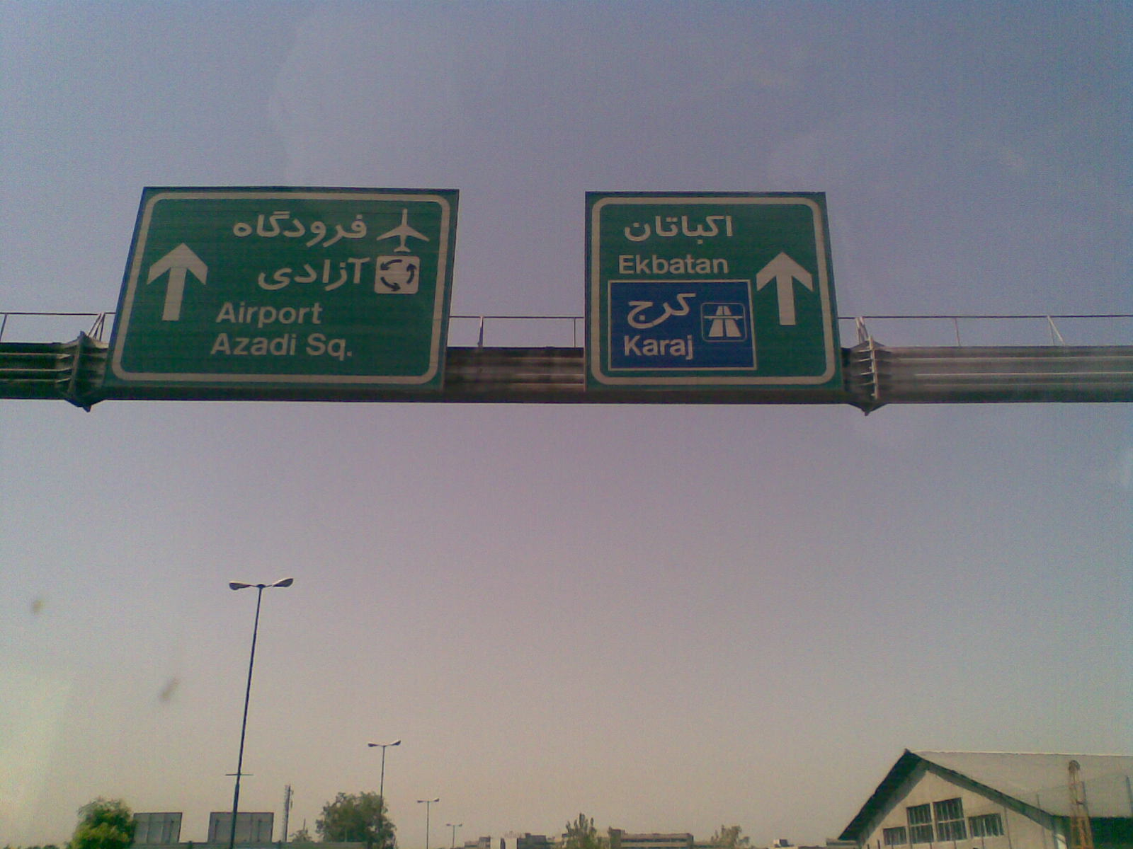 Sattari